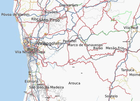 Douro Litoral. Map of Douro Litoral, Portugal, Portugal Map of: Portugal¤.